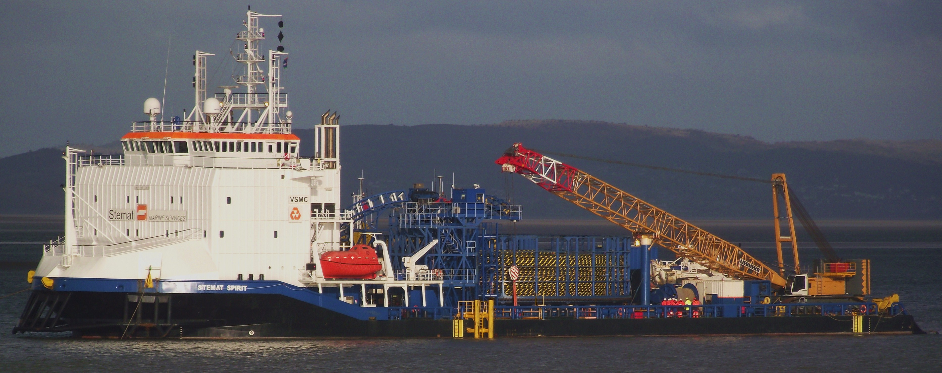 Heysham